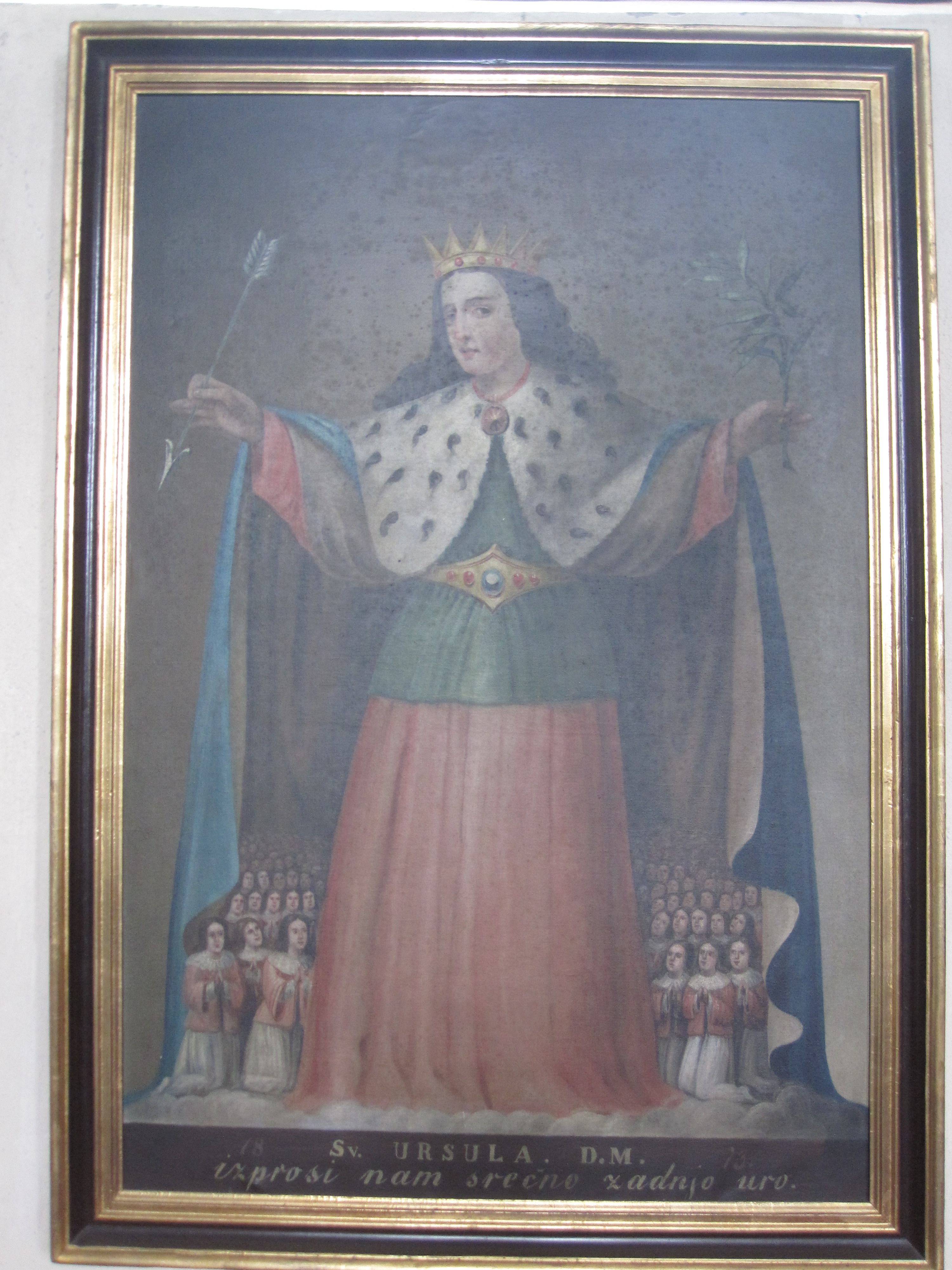 Slovenian votiv painting saint Ursula, 1873, in Poggersdorf/Pokrče (Carinthia)